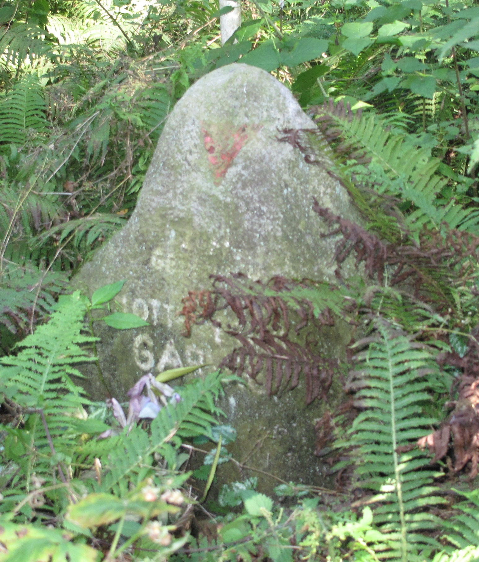 Listed memorial for the victims of National Socialism Erich and Charlotte Garske, which were murdered in December 1943 in Berlin-Plötzensee. The stone (glacial erratic) is situated nearby the Springsee in Limsdorf-Möllendorf. The village Limsdorf is a part of the town Storkow, District Oder-Spree, Brandenburg, Germany. Installed by friends already in 1944 – still during the NS-Regime – the monument is unique in Brandenburg.